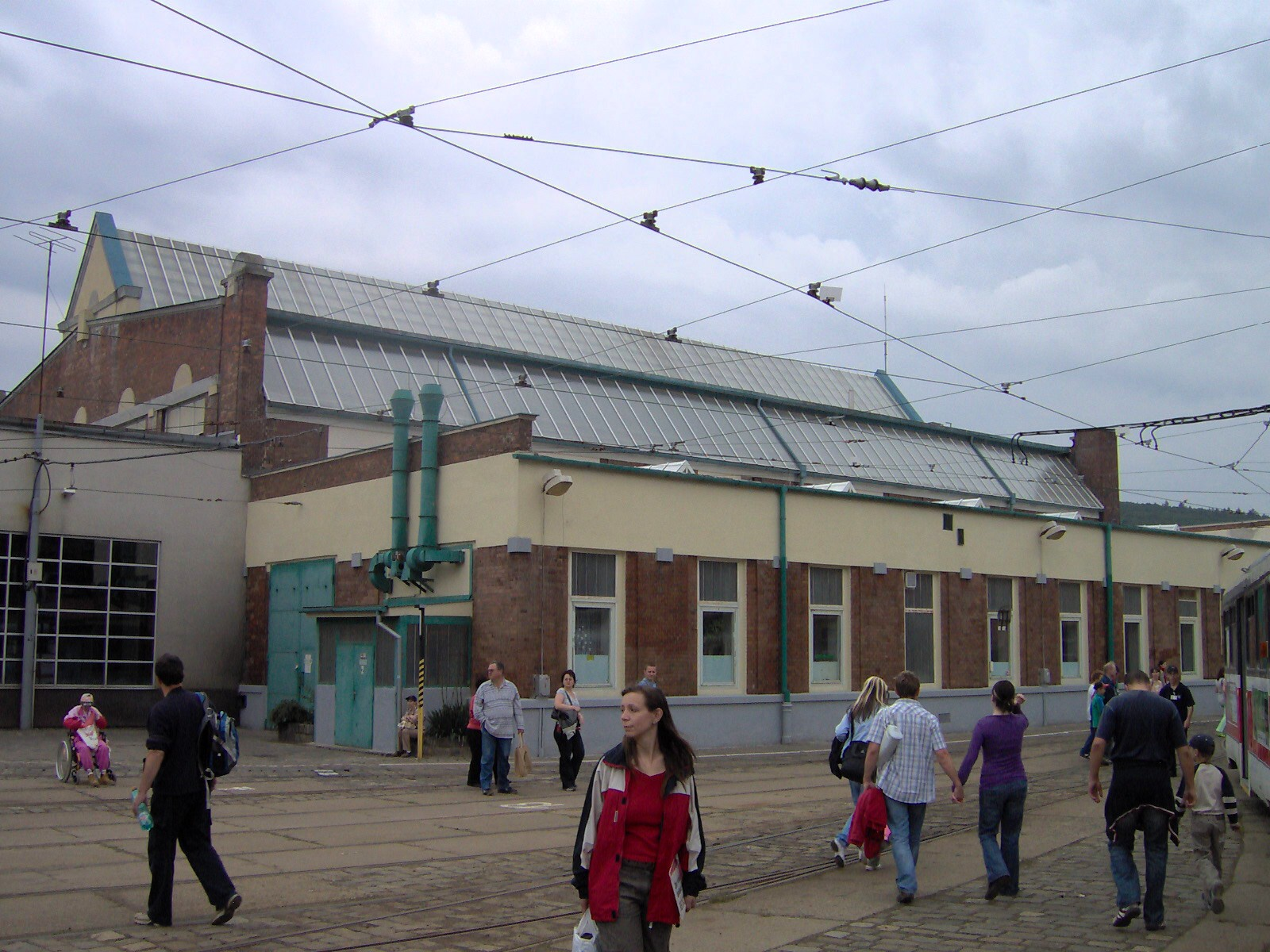 Pisárky depot, 140 years of public transport in Brno, Czech Republic